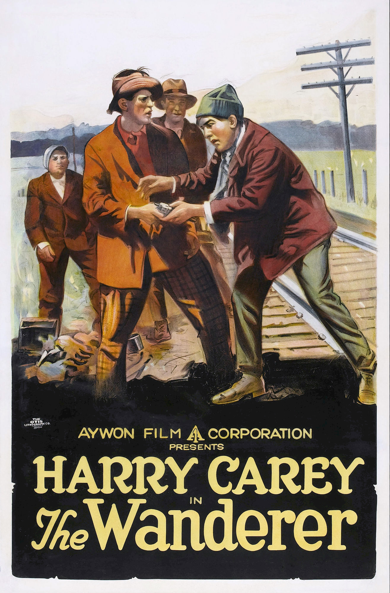 Poster for the film The Wanderer aka Olaf—An Atom. Image matches scene appearing at approximately 2:35 as seen here Olaf—An Atom (1913) was retitled The Wanderer and re-released by the Aywon Film Corporation, a New York City company formed in early 1919. Aywon reissued films including the Biograph Company short films, which were often lengthened by the addition of intertitles.